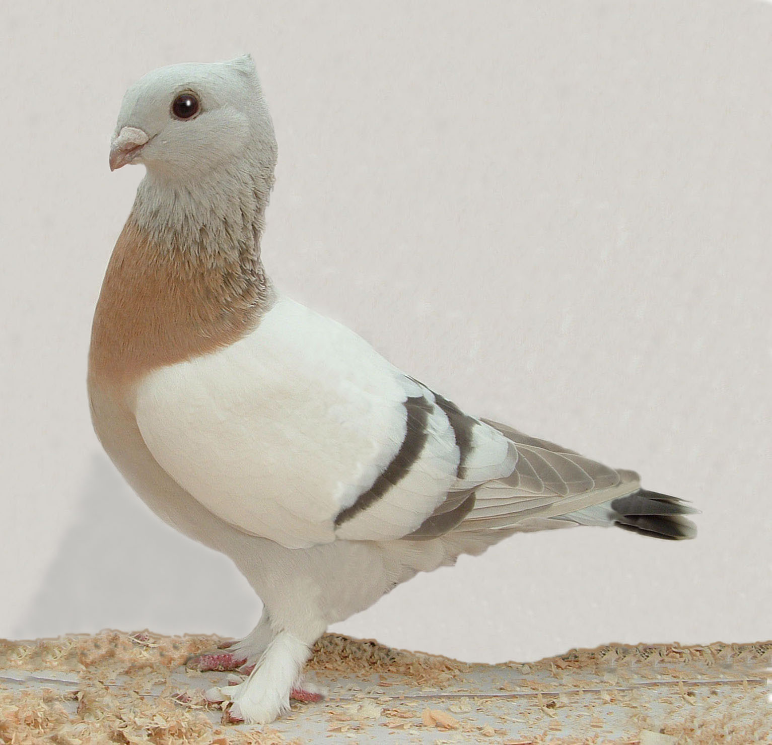 photo by jackie brooks/jim gifford Lucerne Gold Collar. A variety of Swiss Lucerne peak crested pigeon.